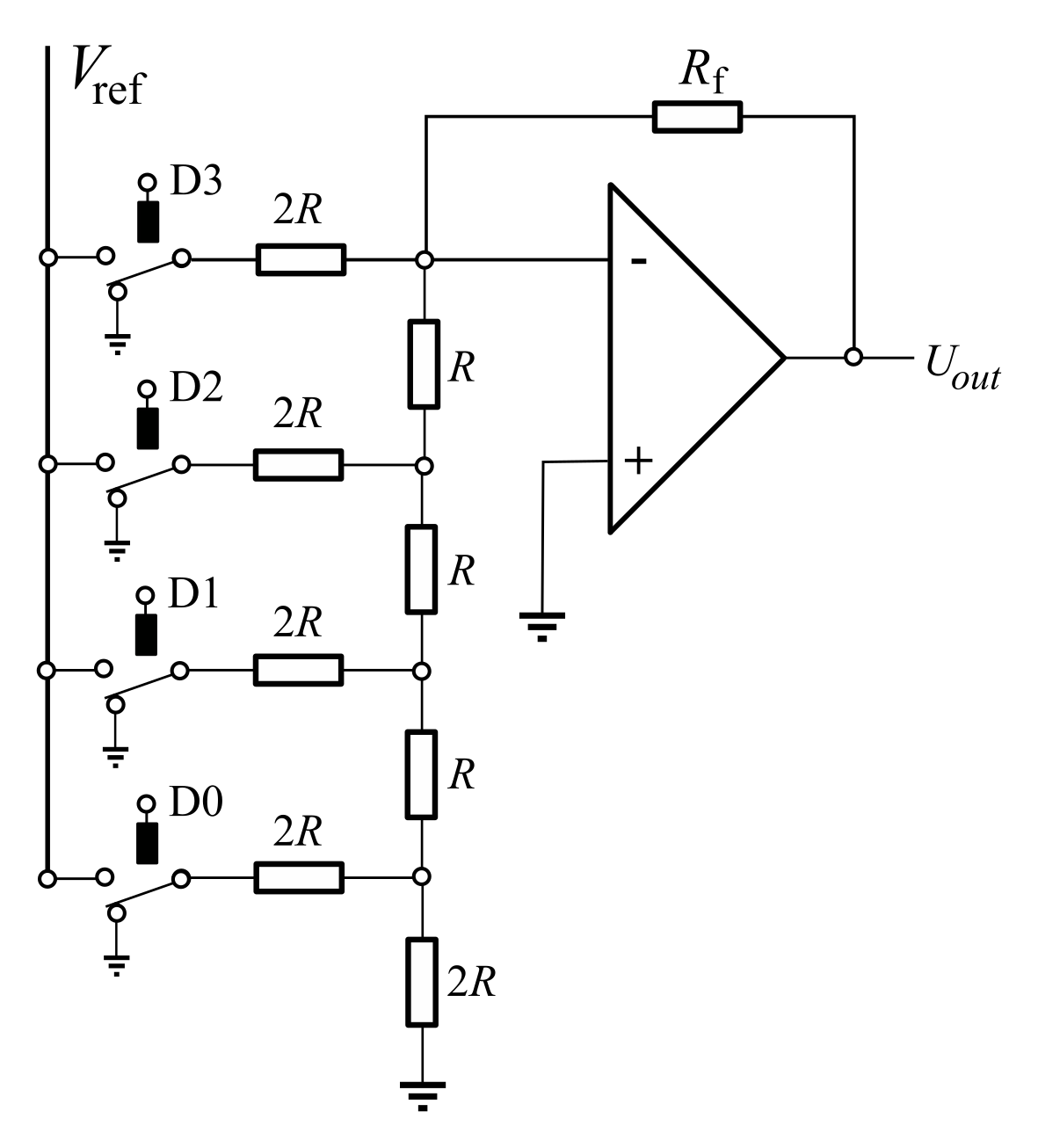 Resistor network for DAC